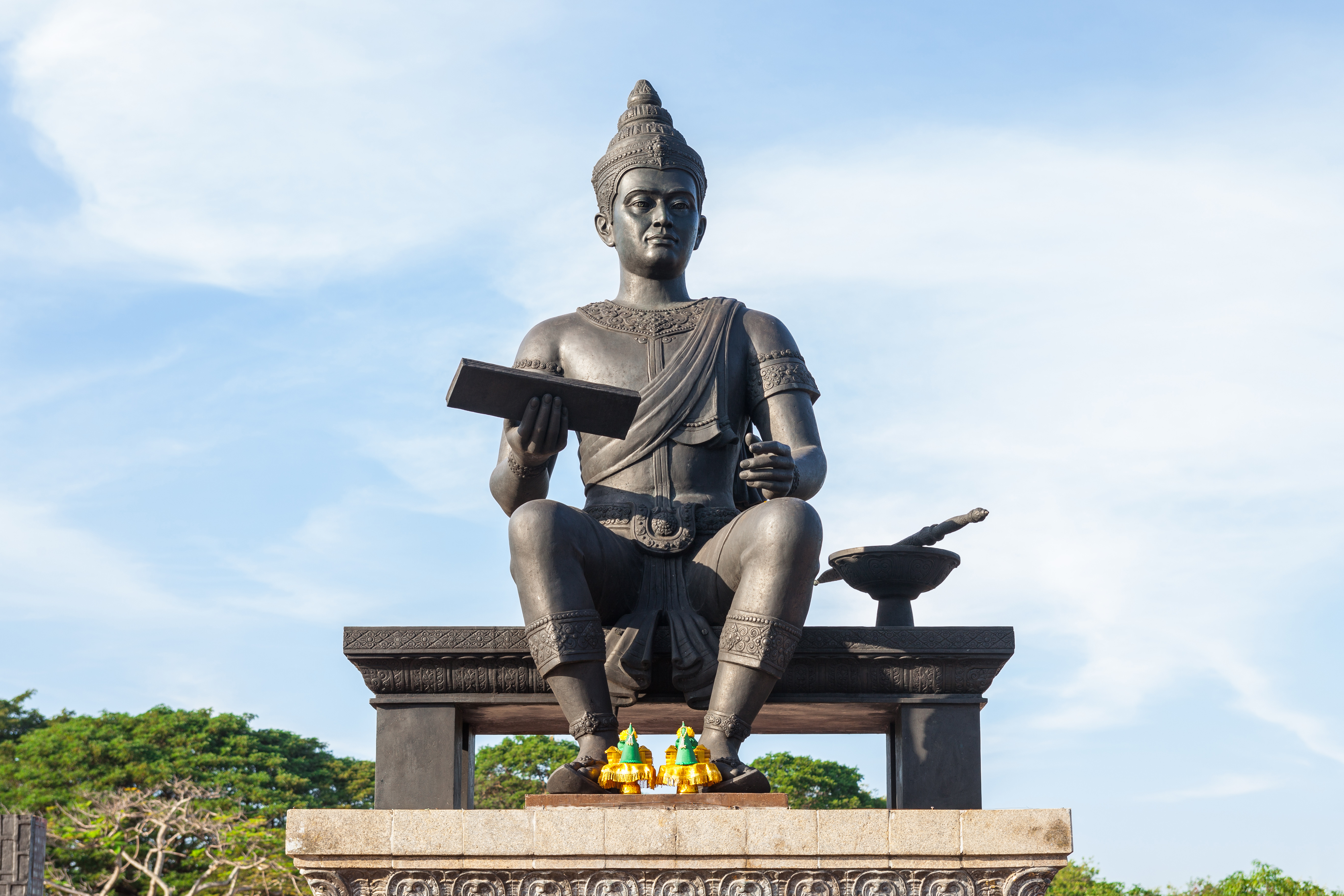 Ram Khamhaeng the Great statue at Sukhothai historical park.